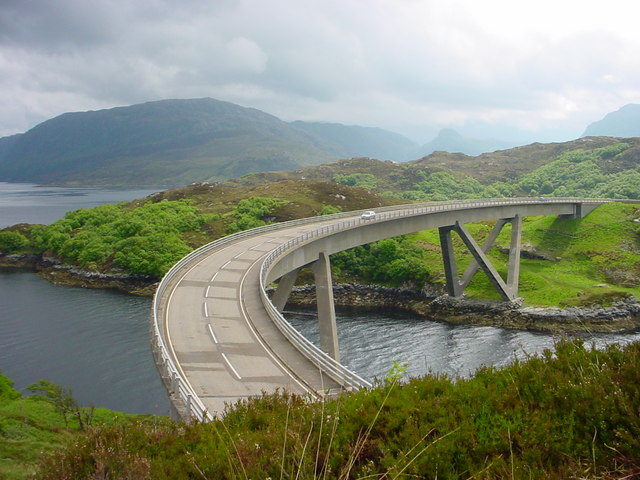 Kylesku Bridge Kylesku Bridge was designed by Ove Arup & Partners and was opened in 1984.